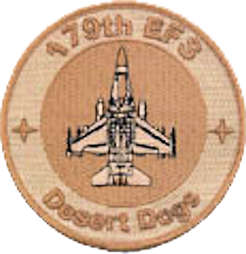 179th Expeditionary Fighter Squadron - Emblem.